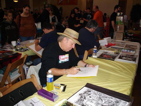 Mike Grell sketching at Bell Con 2007 in Bellingham, Washington.